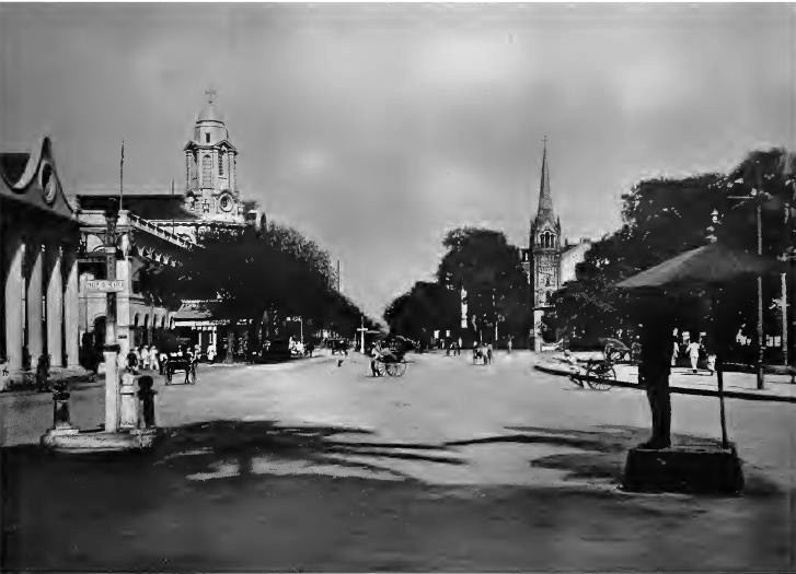 In front of Rangoon Town Hall